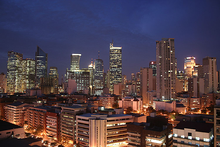 Makati CBD skyline at the start of dawn